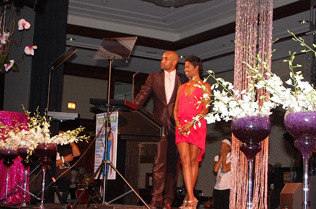 Actor Boris Kodjoe and Actress Vanessa Williams host the program.